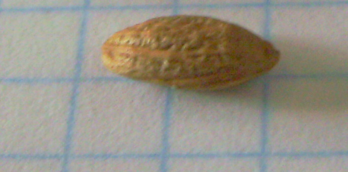 The internal part of the olive tree seed (or almond). Arbequina cultivar, from Castelltallat, Catalonia